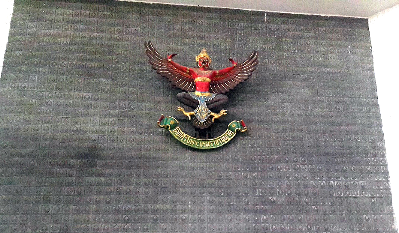 Garuda at Bangkok Bank Siam Square